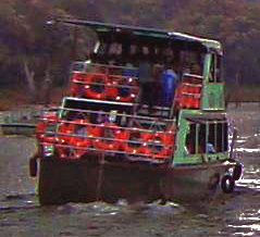 Boat was tilted right from beginning